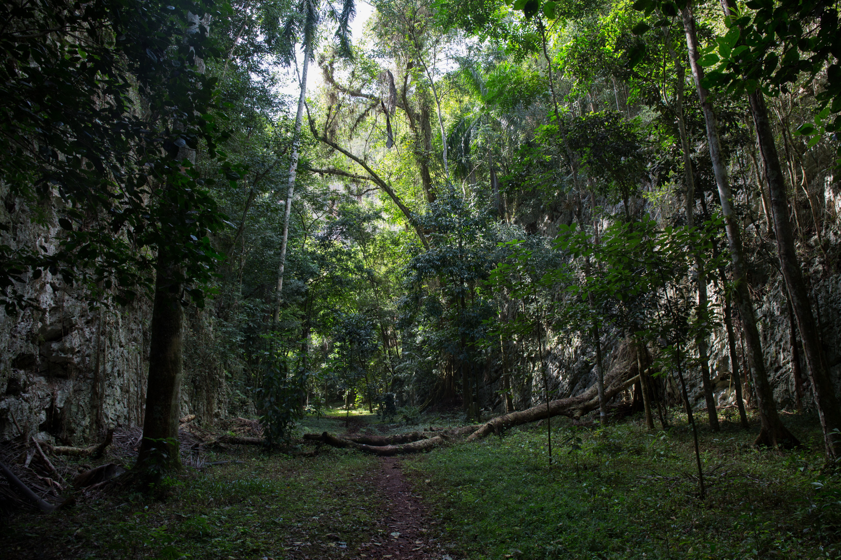 Reserva Ecológica Limones-Tuabaquey; Sierra de Cubitas, province Camagüey, Cuba